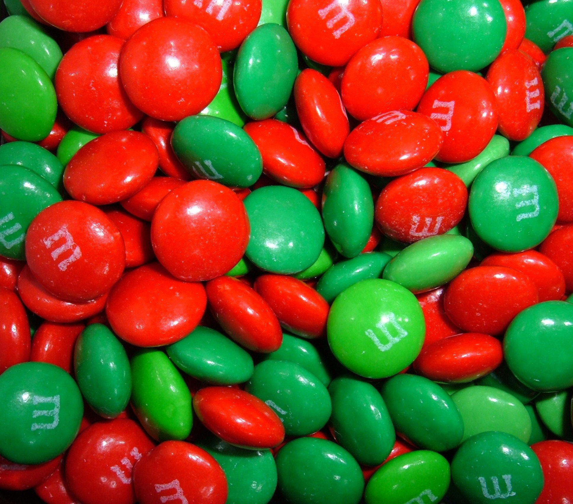 Christmas-themed M&M's